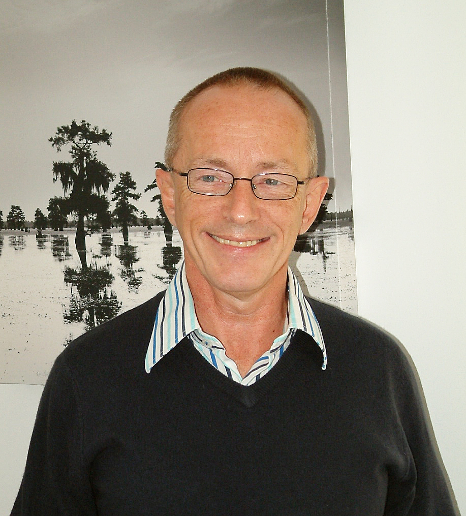 Topper Headon, British rock drummer for the Clash